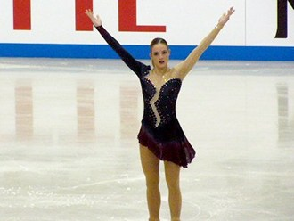 Anne-Sophie Calvez at the 2003 NHK Trophy.